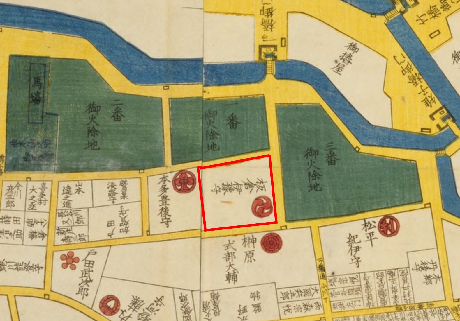 A residence of Itakura clan at Edo